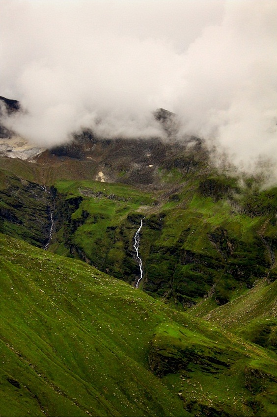 Rohtang Pass is a high mountain pass on the eastern Pir Panjal Range of the Himalayas some 51 km from Manali. It connects the Kullu Valley with the Lahaul and Spiti Valleys of Himachal Pradesh, India.